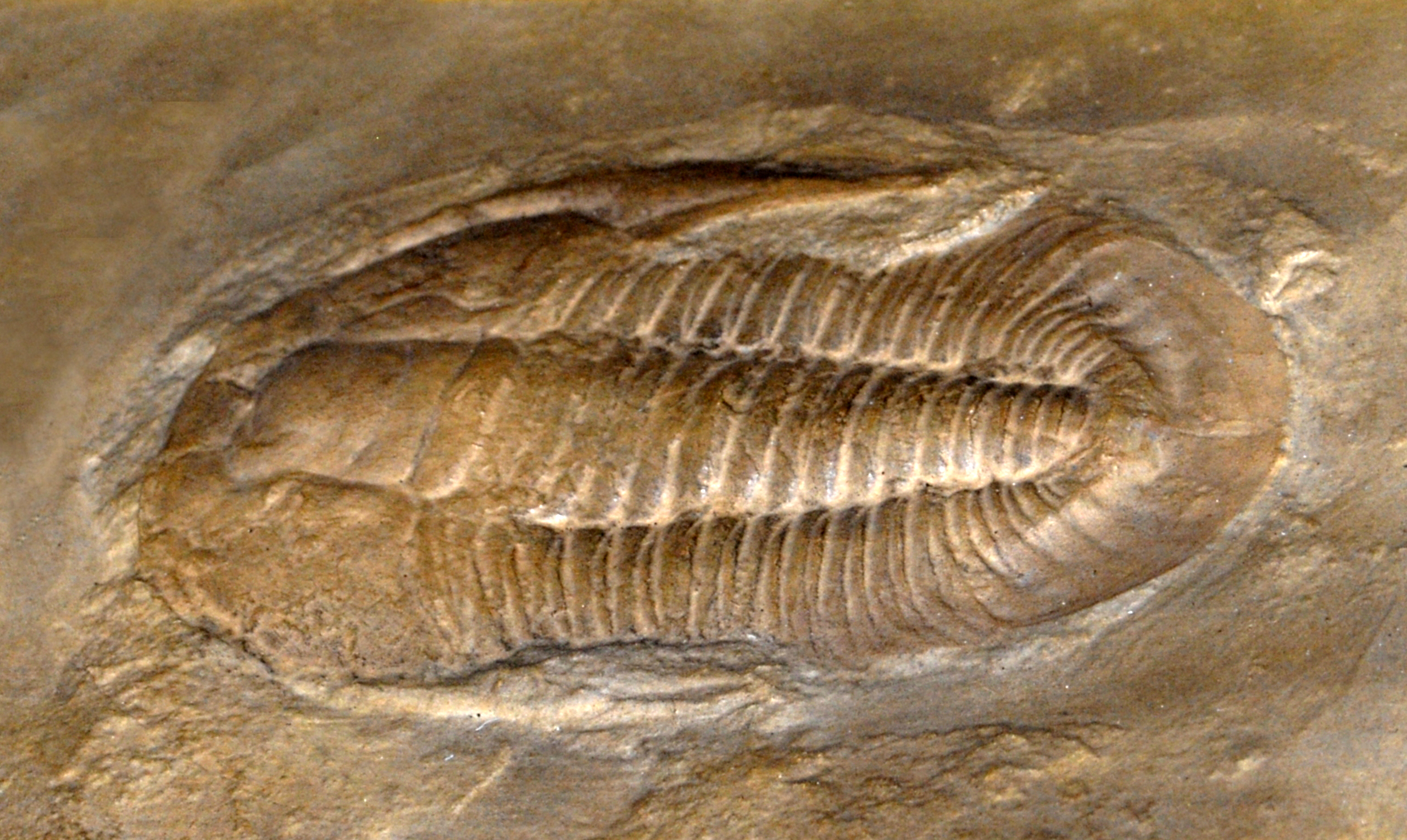 Fossils of Saukiella pepinensis from Wisconsin, on display at Gallery of Paleontology and Comparative Anatomy, Paris.